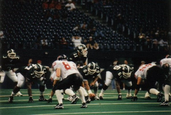 Phil Armour (Offensive Center #67) UNT vs Texas Tech, c.1998